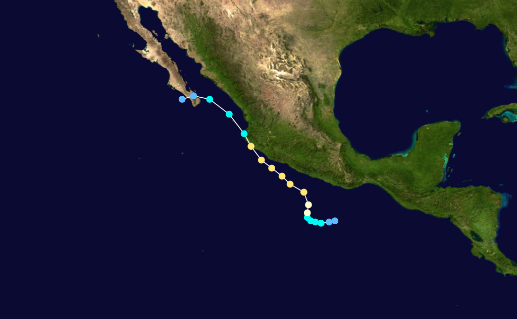 Track map of Hurricane Calvin of the 1993 Pacific hurricane season. The points show the location of the storm at 6-hour intervals. The colour represents the storm's maximum sustained wind speeds as classified in the Saffir-Simpson Hurricane Scale (see below), and the shape of the data points represent the nature of the storm, according to the legend below. Saffir–Simpson scale Tropical depression≤38 mph≤62 km/h Category 3111–129 mph178–208 km/h Tropical storm39–73 mph63–118 km/h Category 4130–156 mph209–251 km/h Category 174–95 mph119–153 km/h Category 5≥157 mph≥252 km/h Category 296–110 mph154–177 km/h Unknown Storm typeTropical cycloneSubtropical cycloneExtratropical cyclone / Remnant low / Tropical disturbance